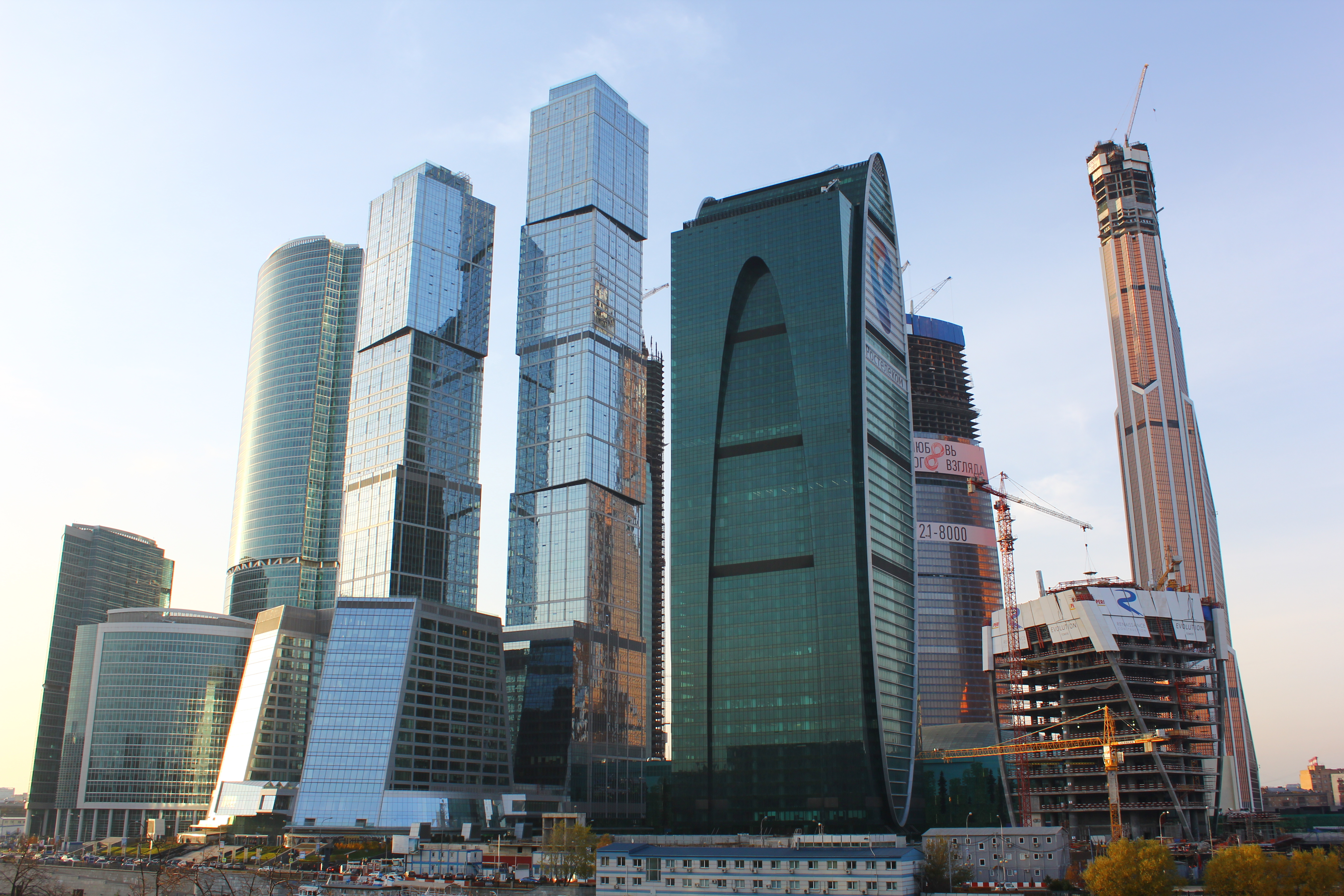 MIBC 20th October 2012